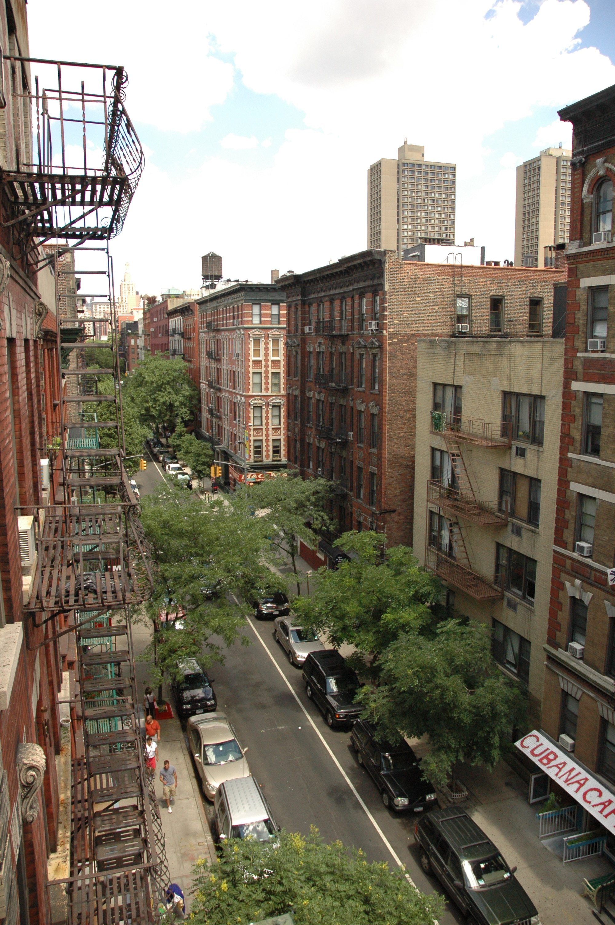 Thompson Street, SoHo, Manhattan, New York City